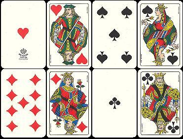 Genoese cards.